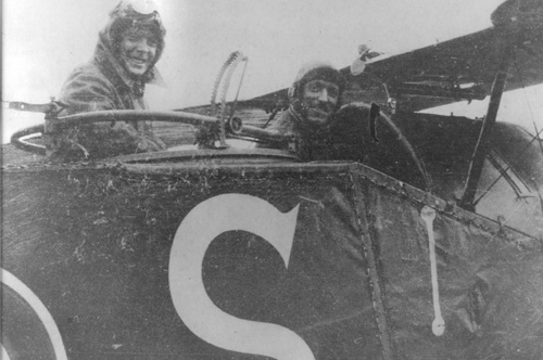 The Prince of Wales (later King Edward VIII) takes to the skies in his first flight in 1918